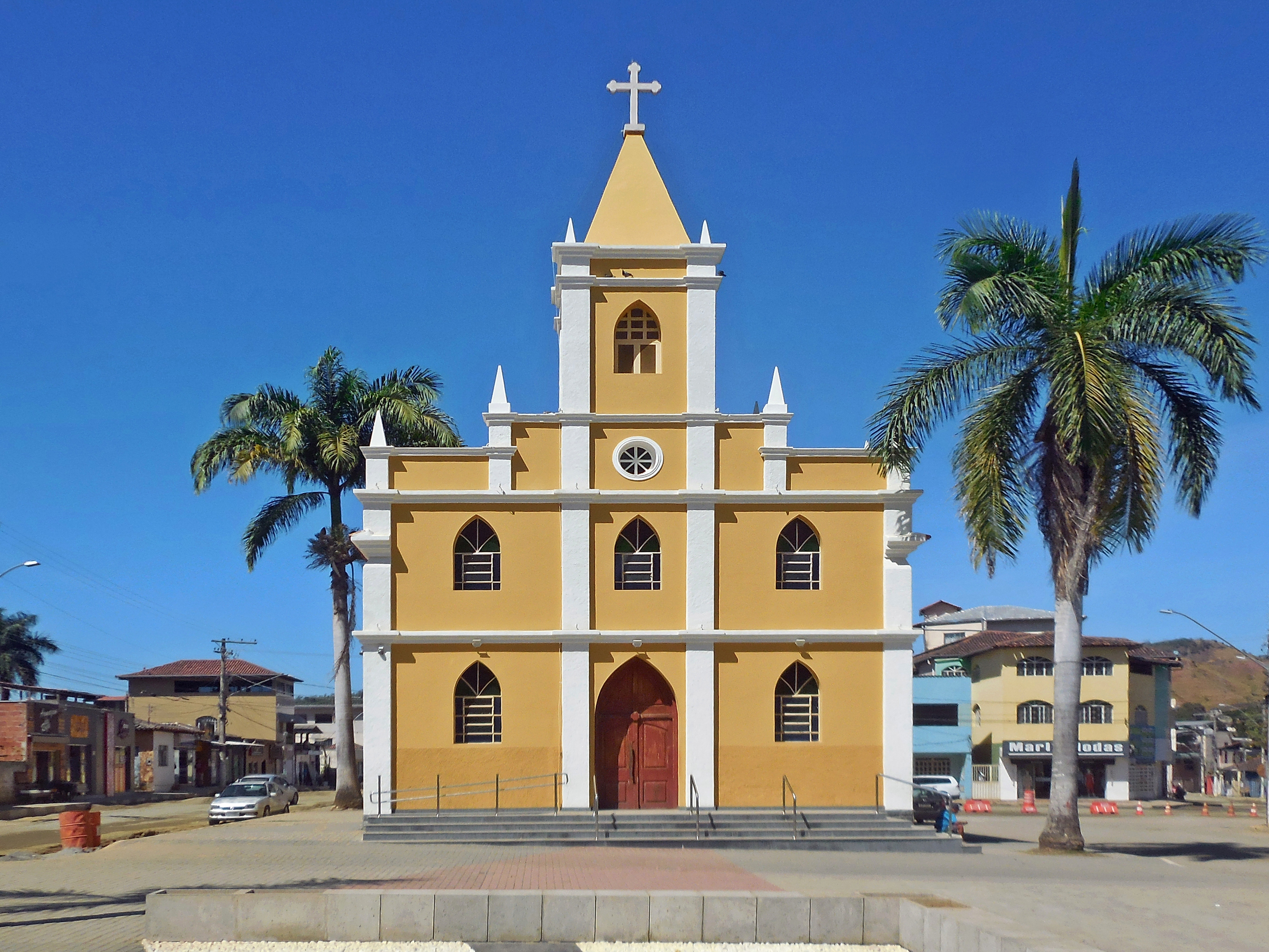 Fachada da Igreja Matriz de Santana, em Santana do Paraíso, Minas Gerais, Brasil. Cultural property Q67025145, Santana do Paraíso, Minas Gerais, Brazil Q67025145, P727